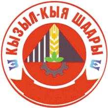 Coat of arms of Kyzyl-Kiya